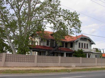 The street view of Wolfe Manor that includes the concrete wall that was later removed.